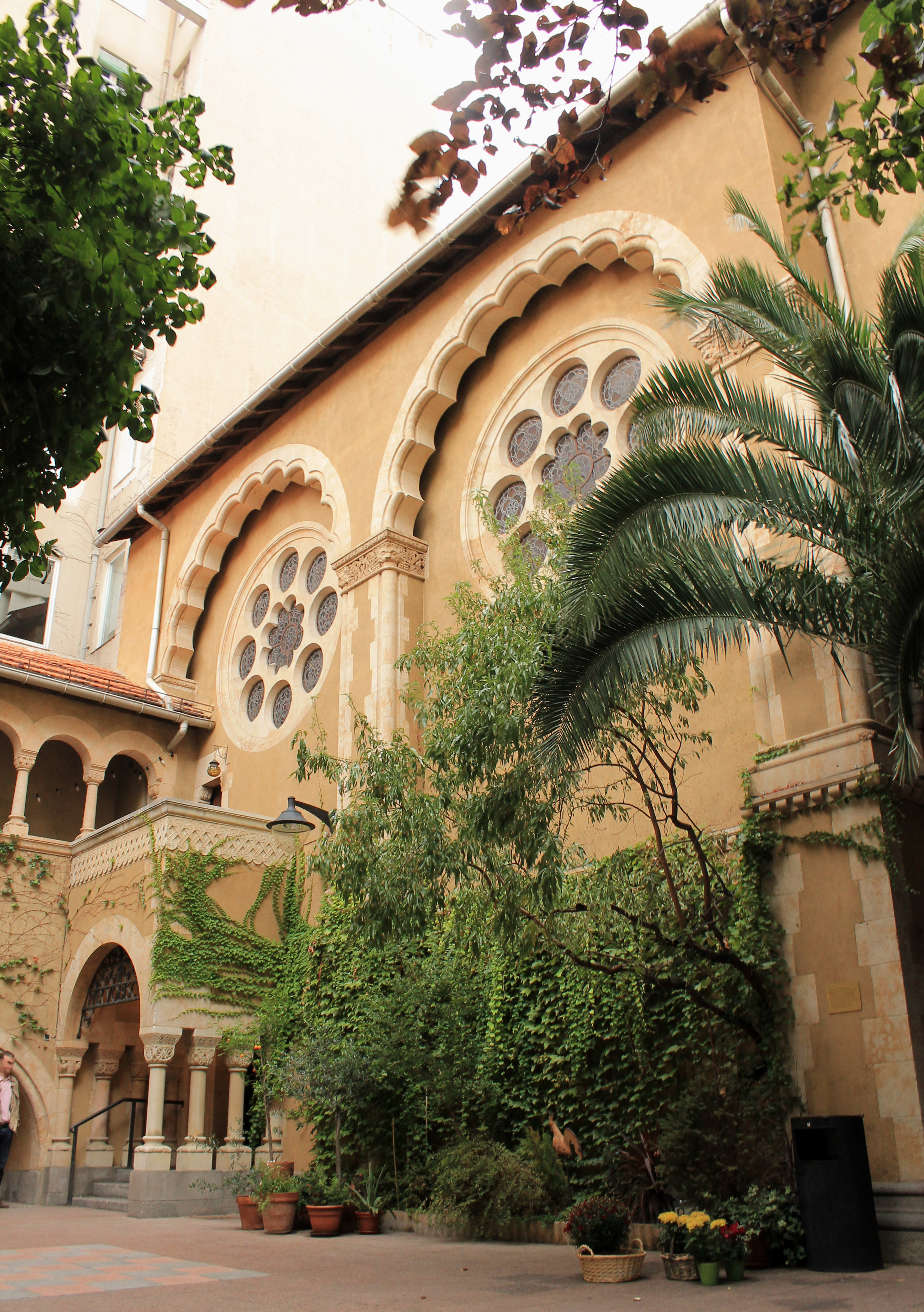 Façade of the German-Speaking Evangelical Church in Madrid (Spain).